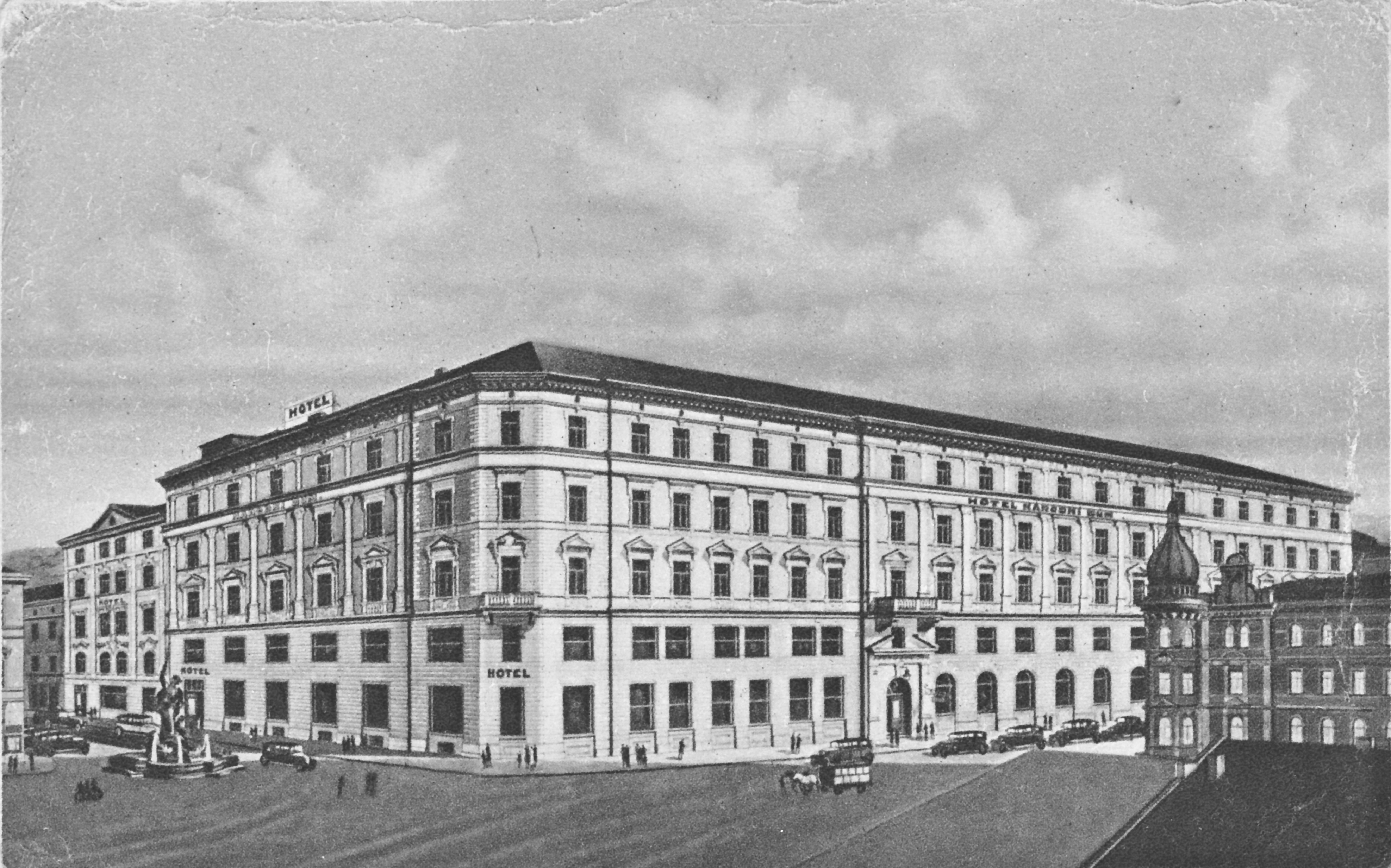 Postcard with the hotel Národní dům in Olomouc.